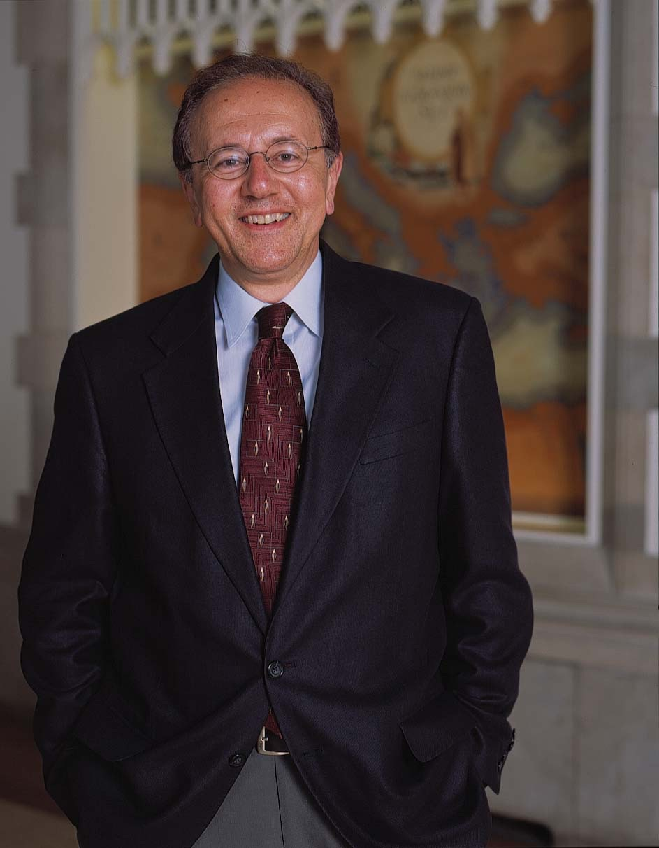 Panos Antsaklis